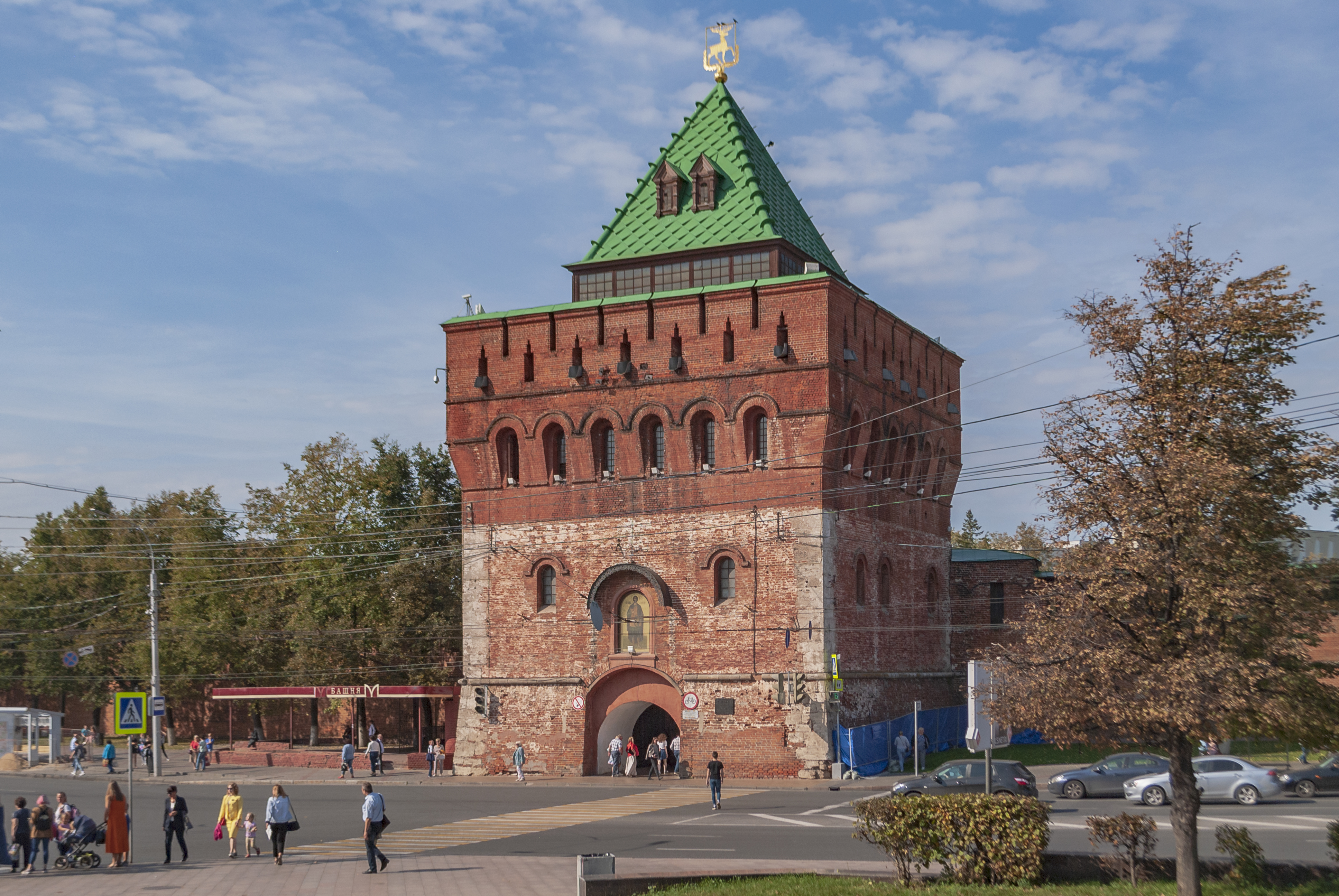 Dmitrievskaya Tower of the Nizhny Novgorod Kremlin